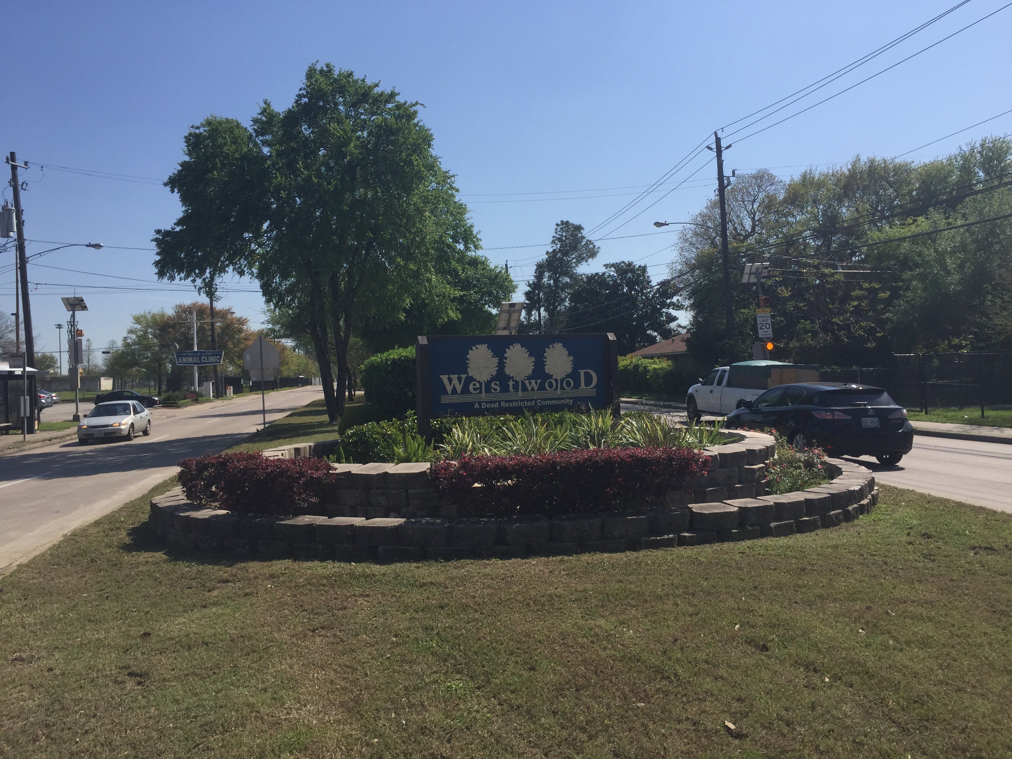 Westwood subdivision marker